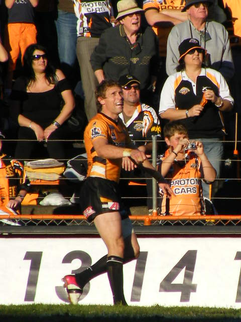 Tiger's fullback and goal kicker Brett Hodgson moments after a failed attempt to kick his team to victory.